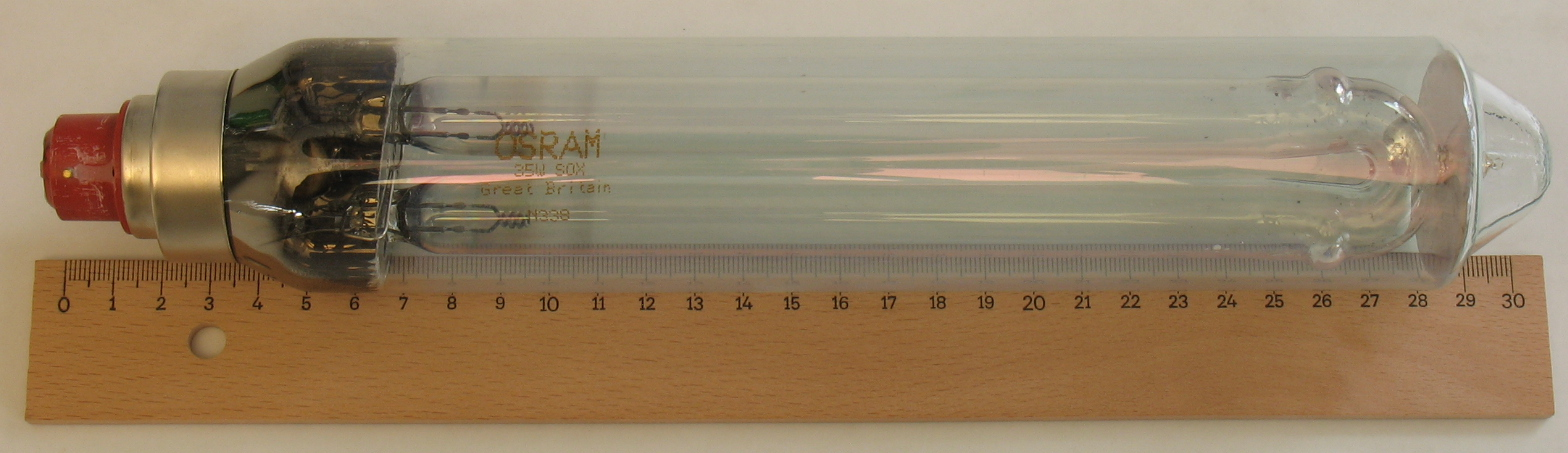 Low Pressure Sodium Lamp, OSRAM 35W SOX